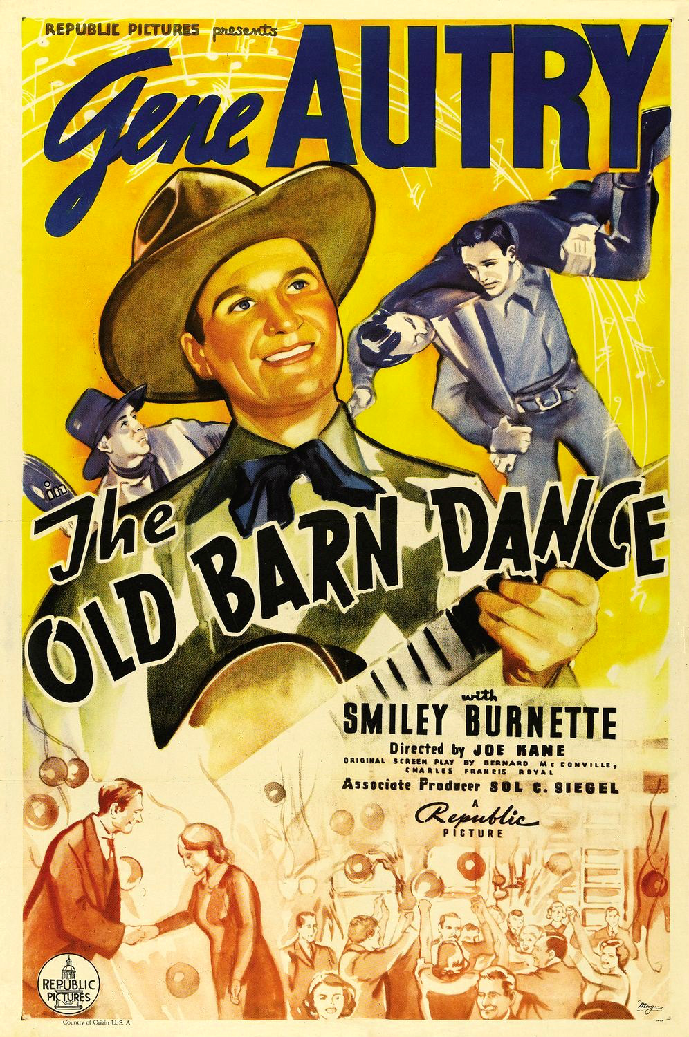 Poster for the 1938 film The Old Barn Dance. There are no copyright marks on the item, which can be seen at the link. At bottom is Country of origin USA and a logo for Morgan Litho Company of Cleveland--they printed the poster.